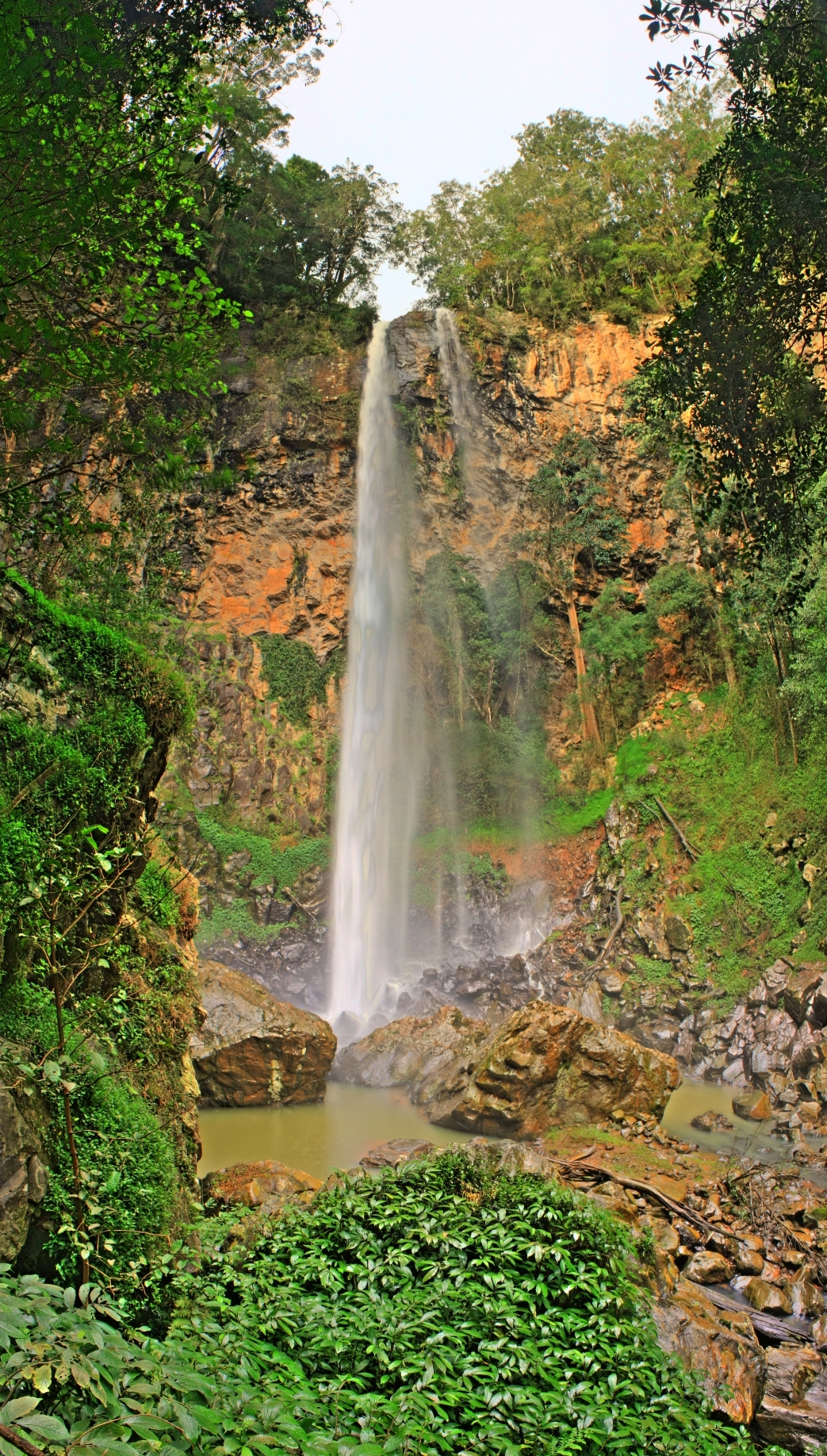 Rawson Falls - July 2009